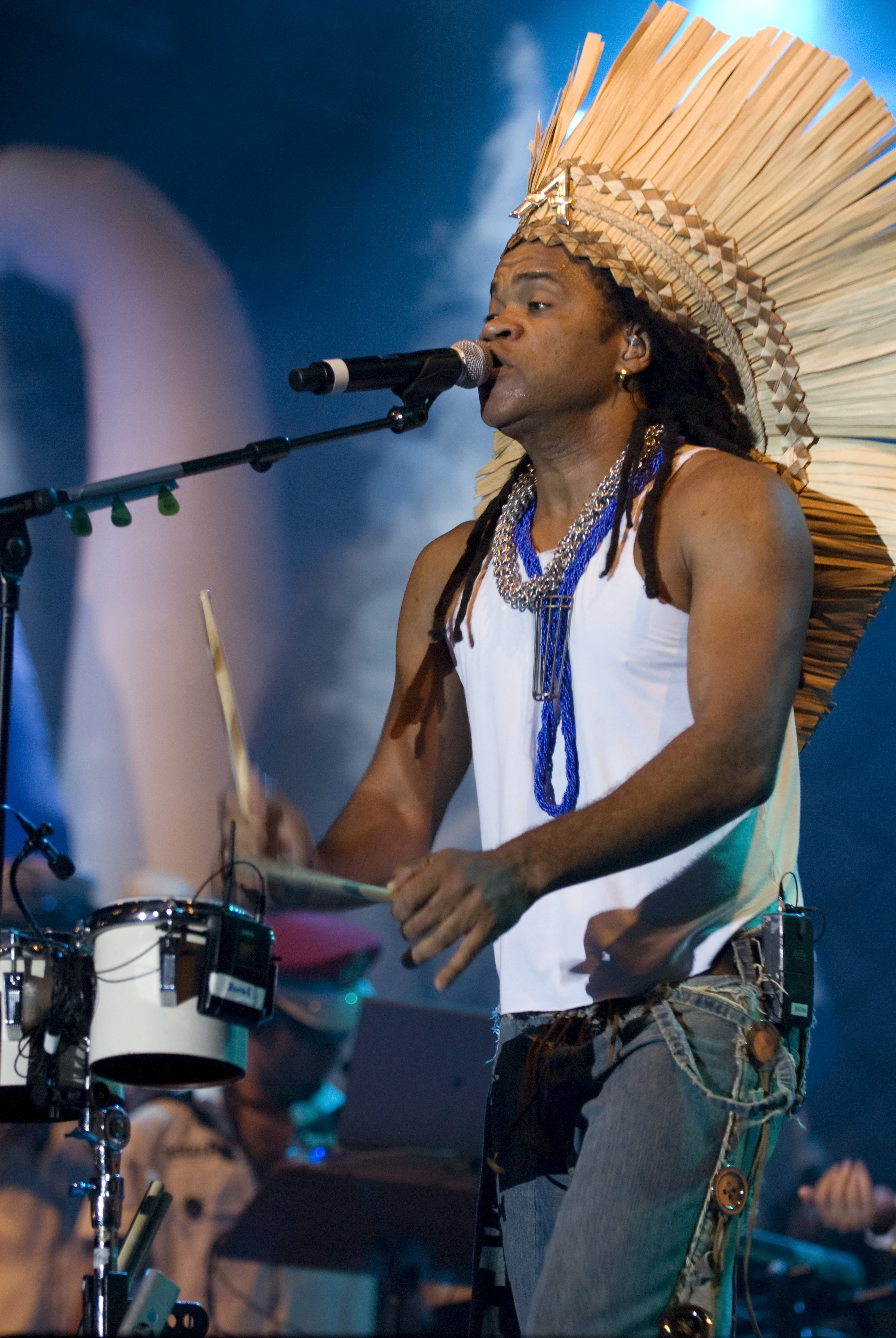 Carlinhos Brown